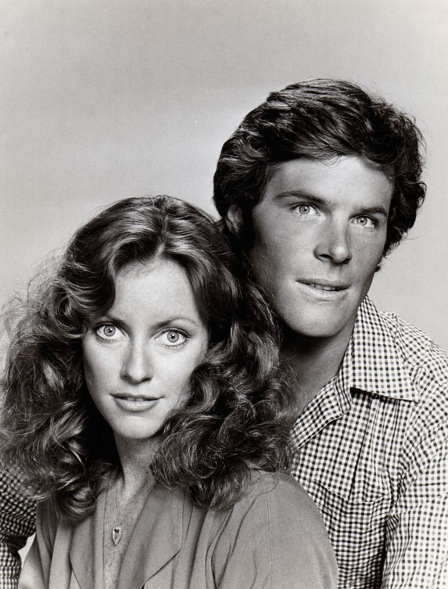 Press photo of Kim Lankford and James Houghton for Knots Landing in 1979